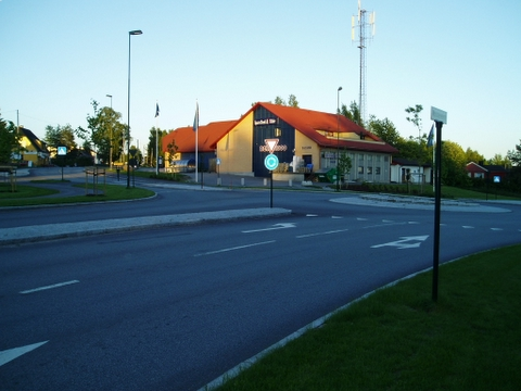 Karlshus, Råde, Norway.